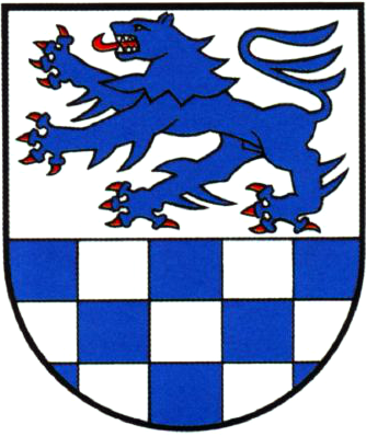 Coat of Arms of Samtgemeinde Meinersen (Gifhorn)